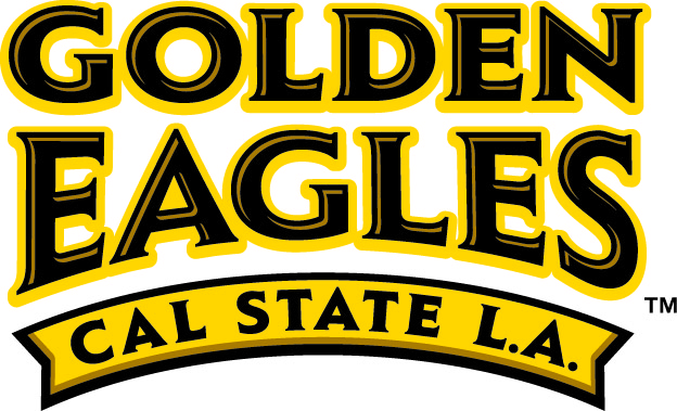 Cal State Los Angeles Golden Eagles wordmark